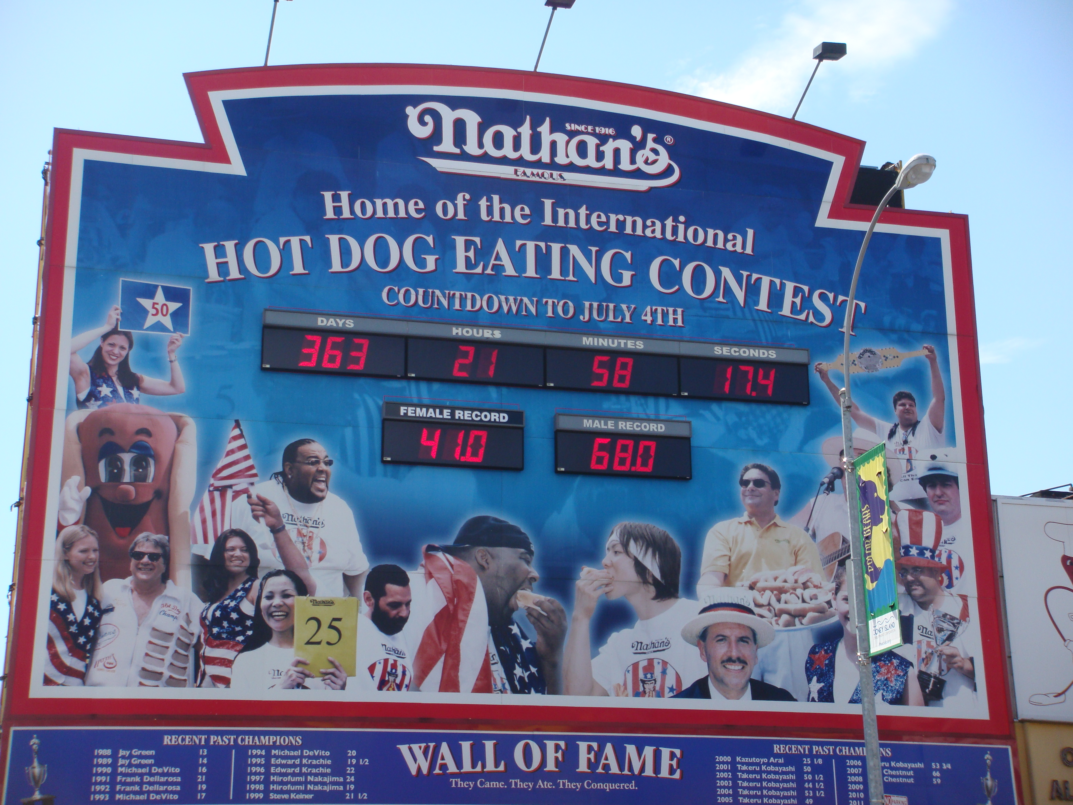 Nathan´s Hot Dog Eating Contest